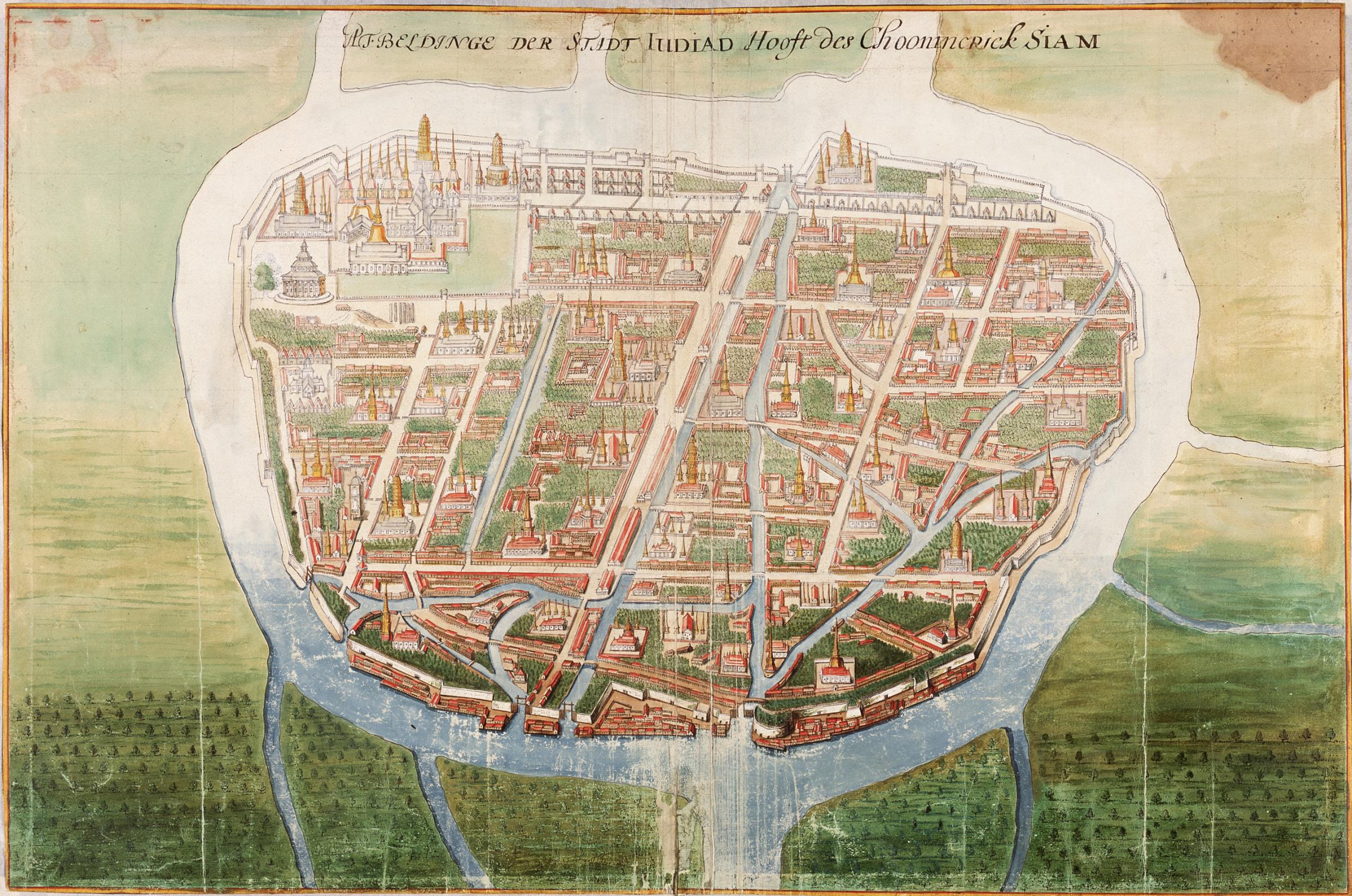 Title in the Leupe catalogue (NA): "Afbeeldinge der stad Judiad hooft des Choonincrick Siam"in vogelvlucht. Particulars: the map forms part of the Vingboons Atlas. The measurements do not include a strip of Japanese paper pasted on later. Cf. Koninklijke Bibliotheek, inv. nr. 185 A 5 part III, III, after p. 60 and 693 C 6 dl XII, na p. 188.